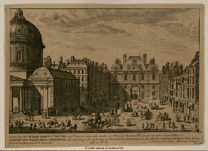 The new porte Saint-Honoré, built in 1635. Paris, 1st arrond. On the left, the church Notre-Dame de l'Assomption with its large dome.